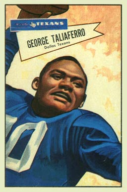 American football player George Taliaferro on a 1952 Bowman Large card.